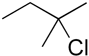 chemical structure of tert-amyl chloride (2-chloro-2-methylbutane)